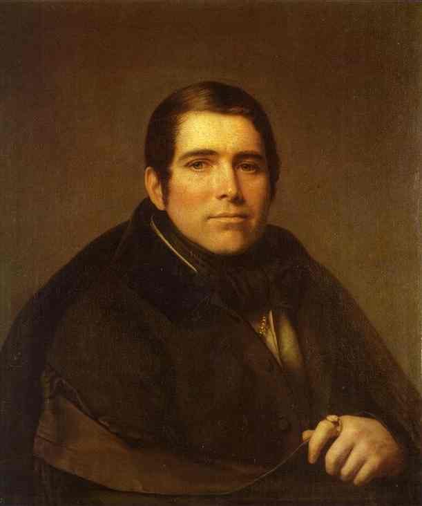 Portrait of Pyotr Pletnev (1836). The Pushkin Museum in St Petersburg.